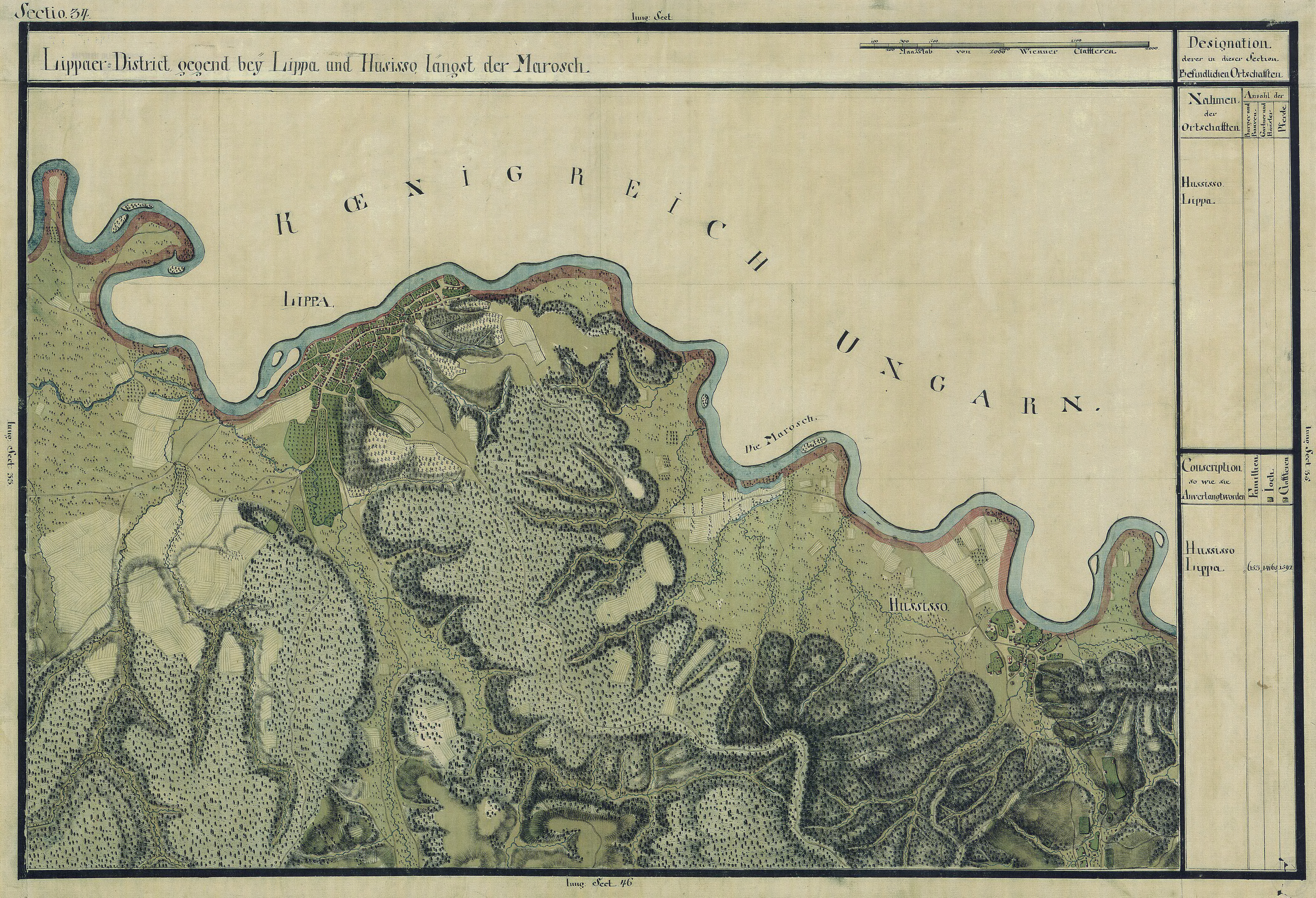 The Banat region in the cadastral maps: Josephinische Landesaufnahme, 1769-72. Josephinische Landaufnahme pg034